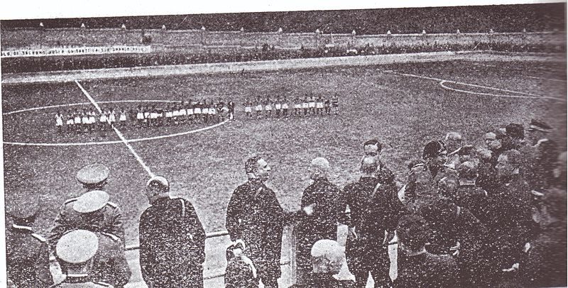 Gerarchi fascisti inaugurazione Littorio